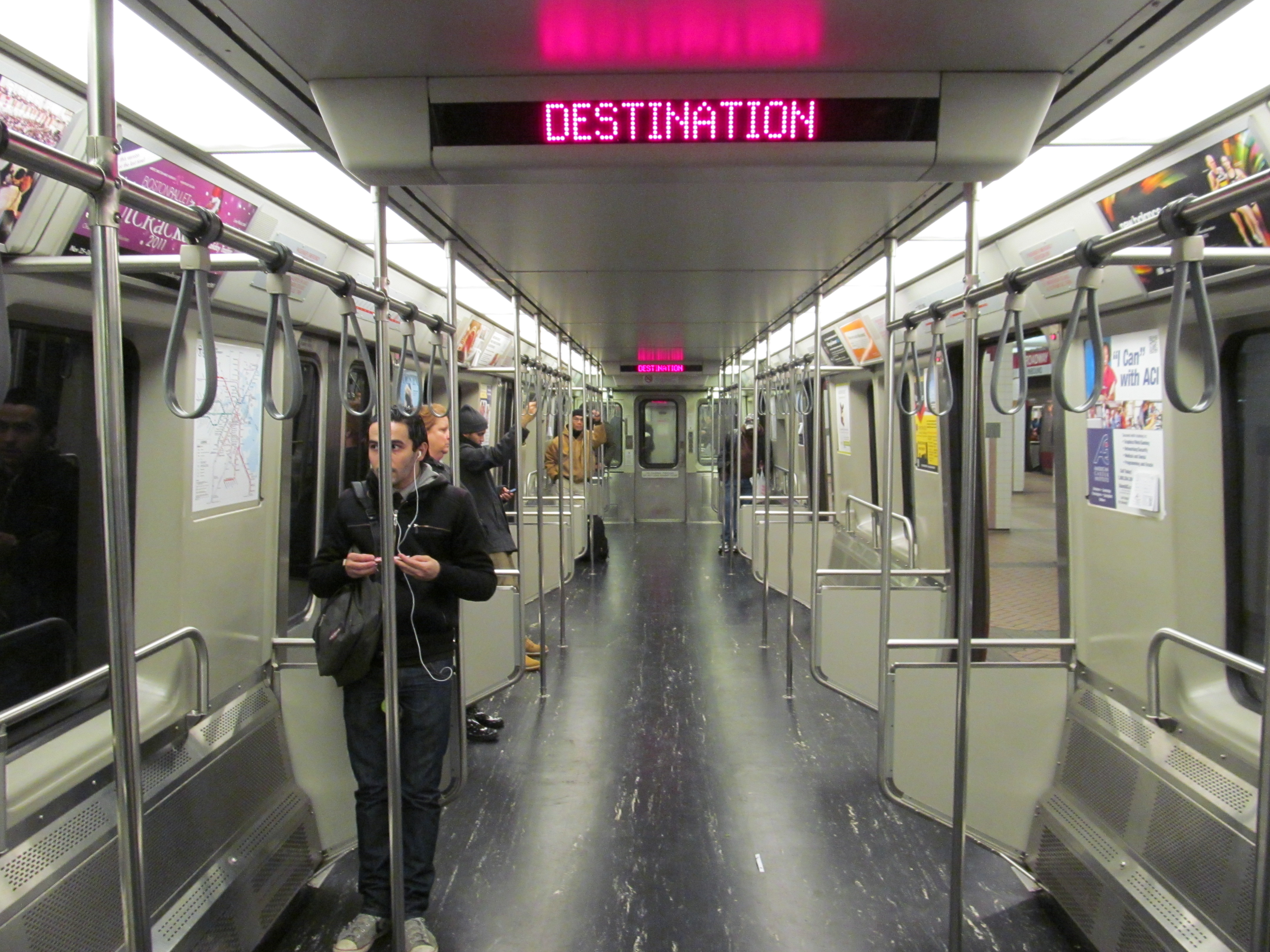 Interior of a nearly-empty Big Red high-capacity train headed inbound during the evening rush at Broadway